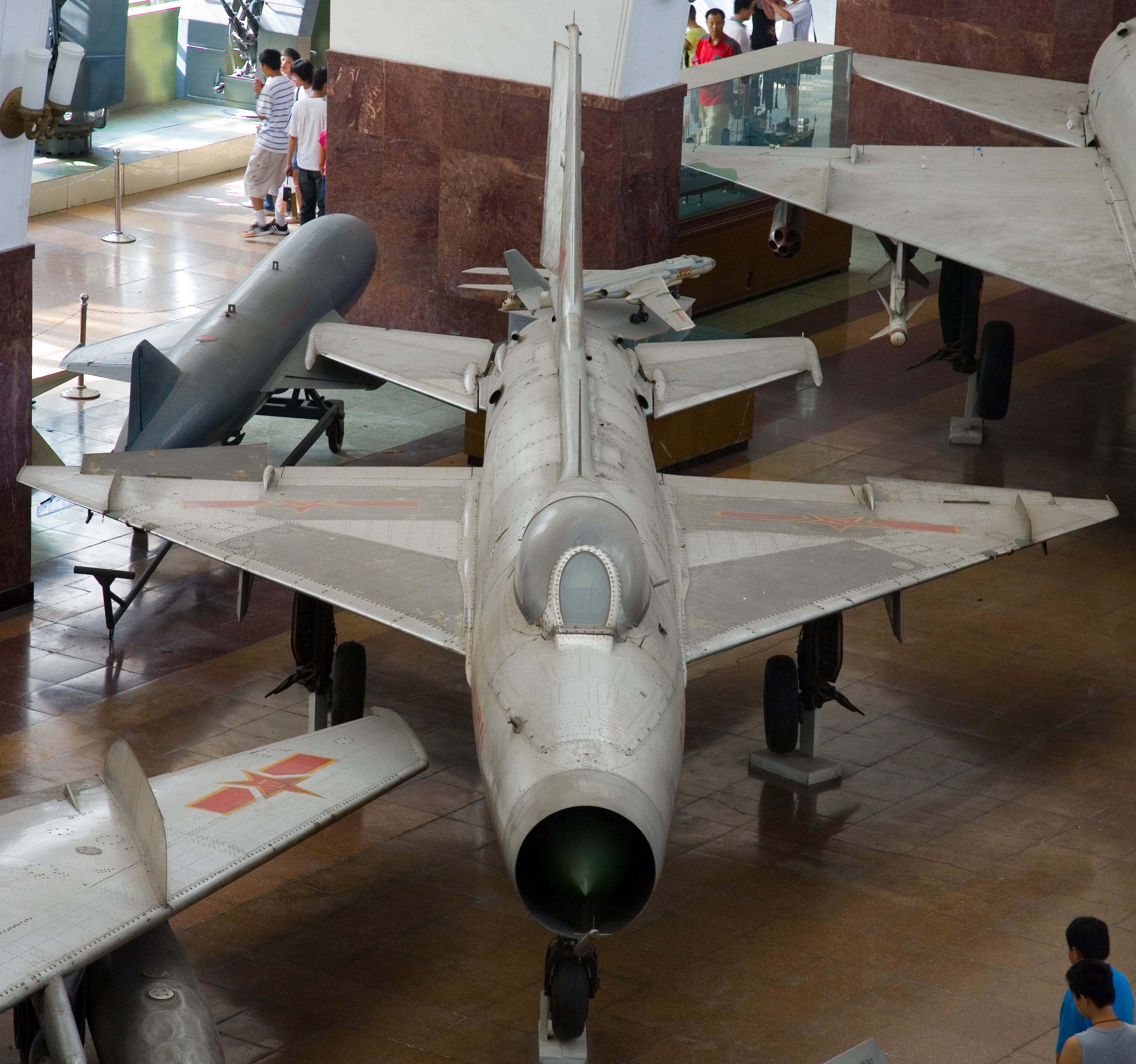 A Chinese J-7I fighter at the Beijing Military Museum from the front